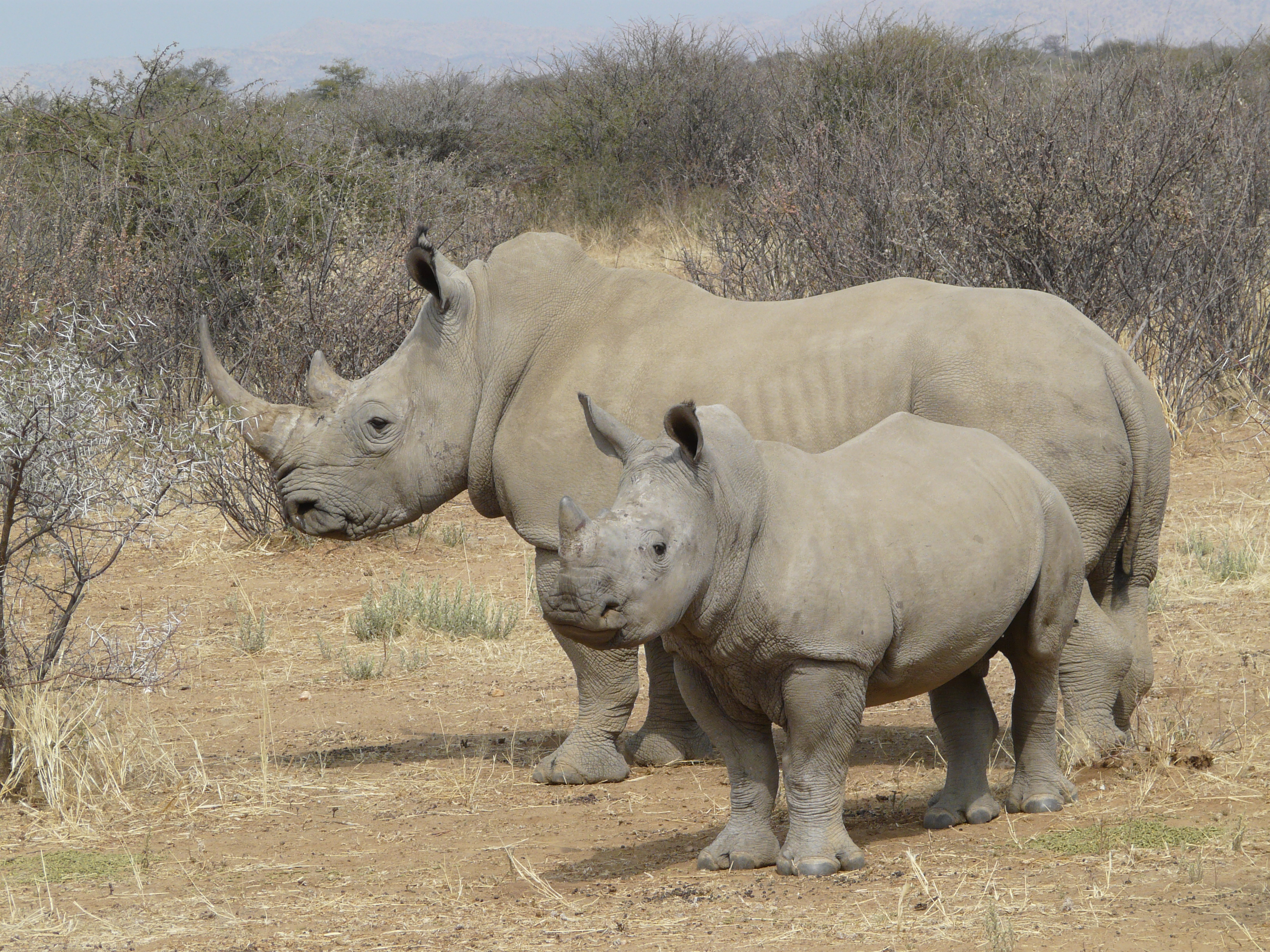 White rhino, mother and baby (Namibia)